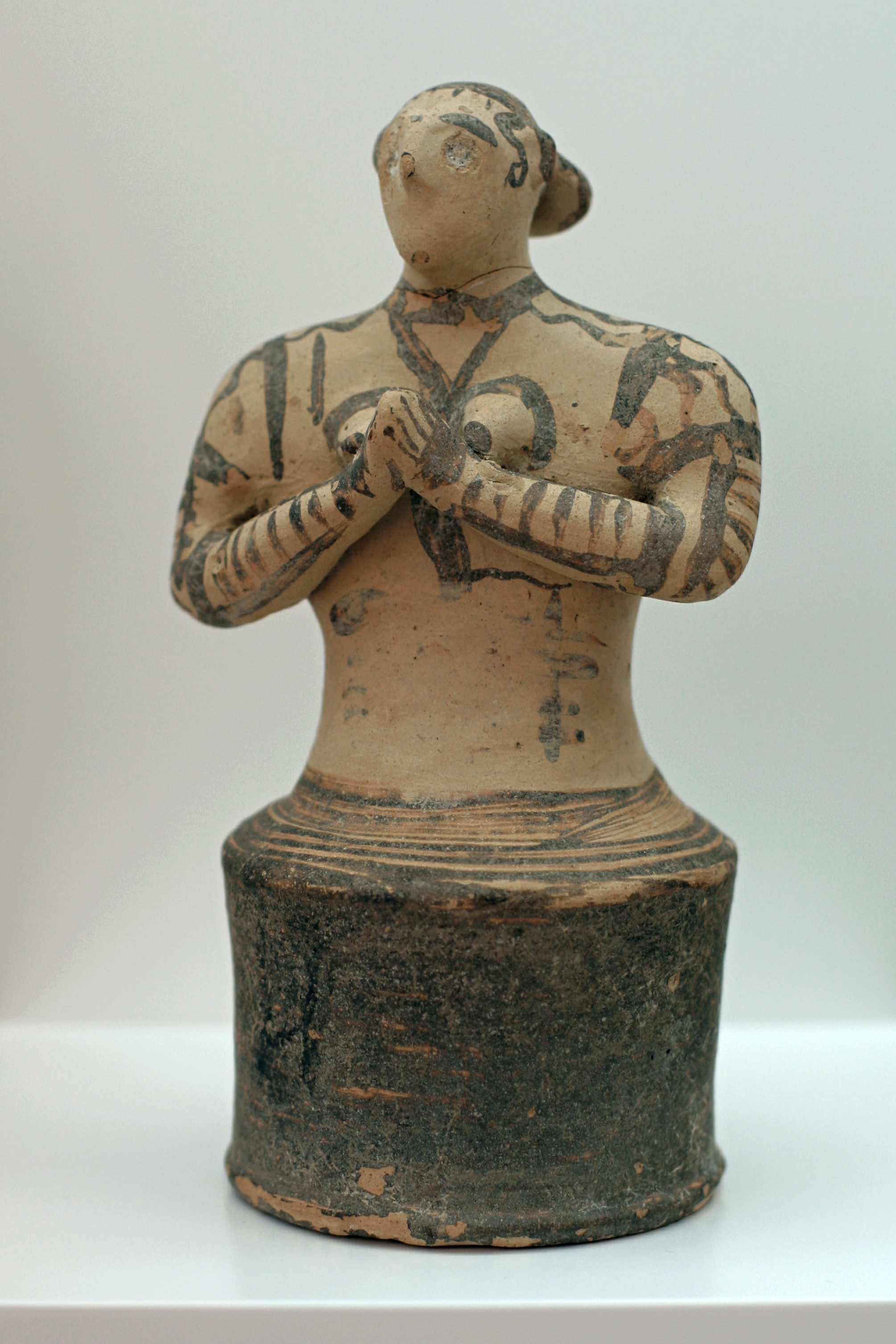 Goddess or priestess, painted terracotta from burial ground in Myrsini, near Sitia, Late Minoan III period, 1450-1100 BC. Archaeological Museum of Agios Nikolaos.